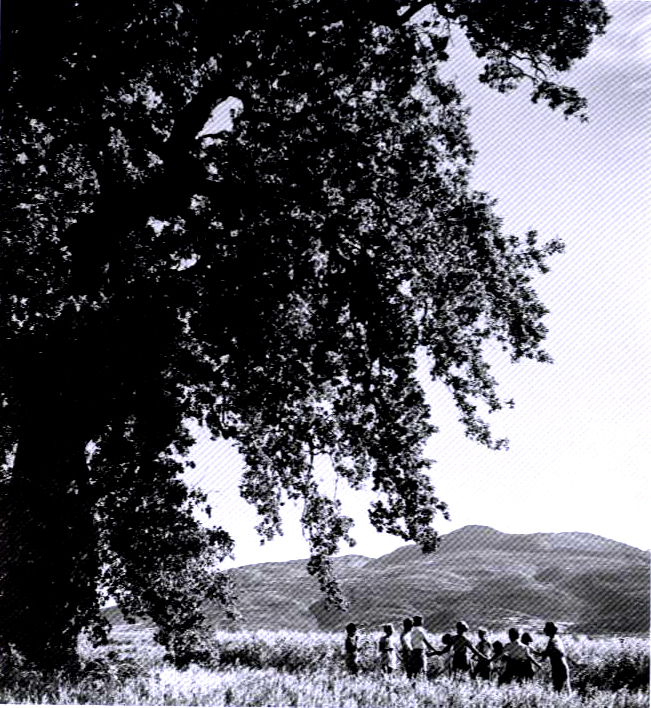 She'ar Yashuv Dances. Zoltan Kluger, 1948. Central Zionist Archives.